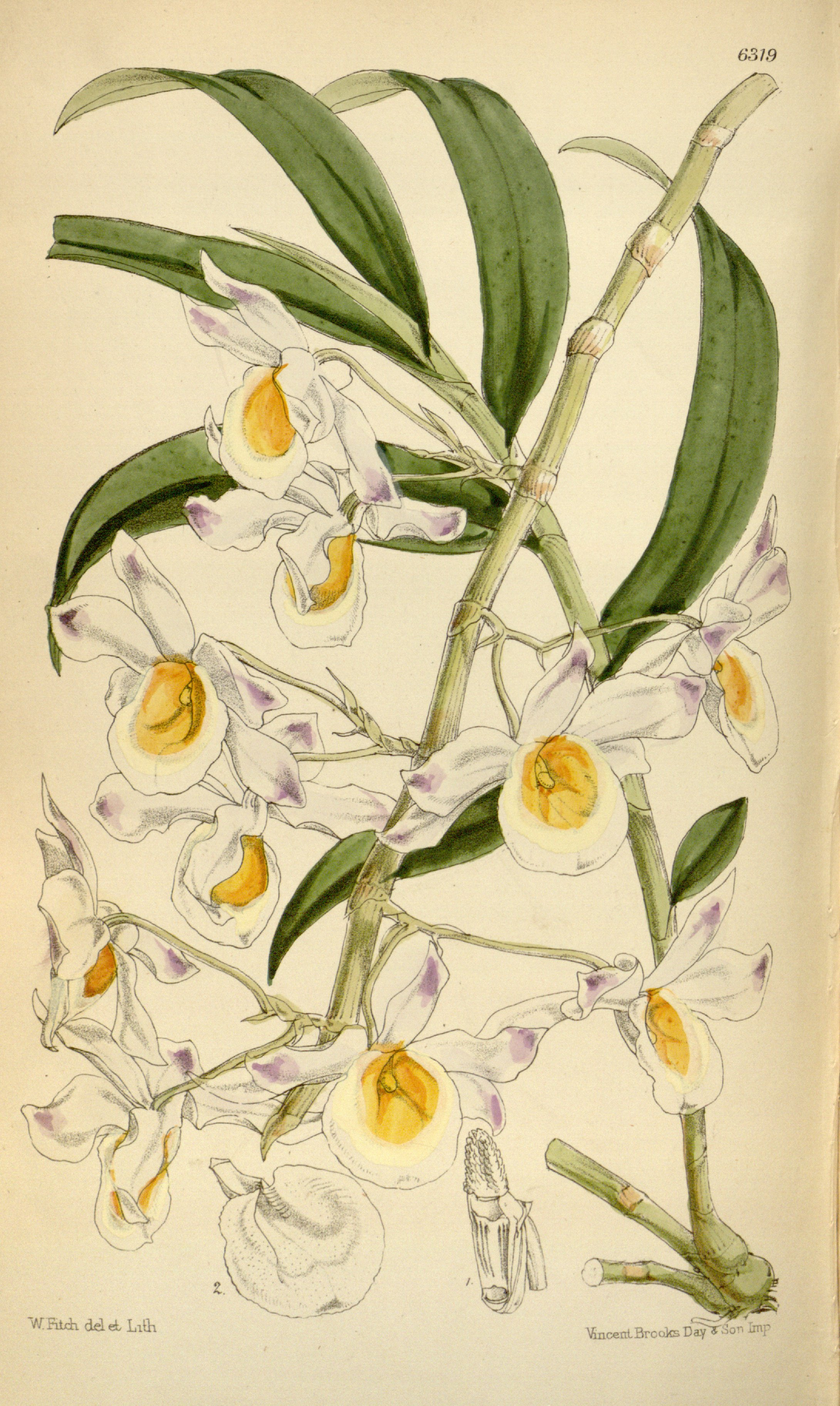 Illustration of Dendrobium crystallinum